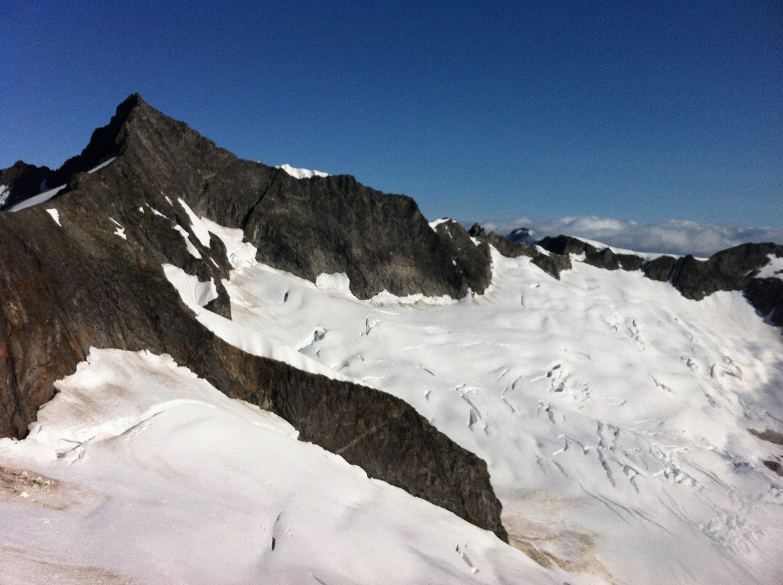 Boston Glacier and Forbidden Peak from west ridge of Boston Peak